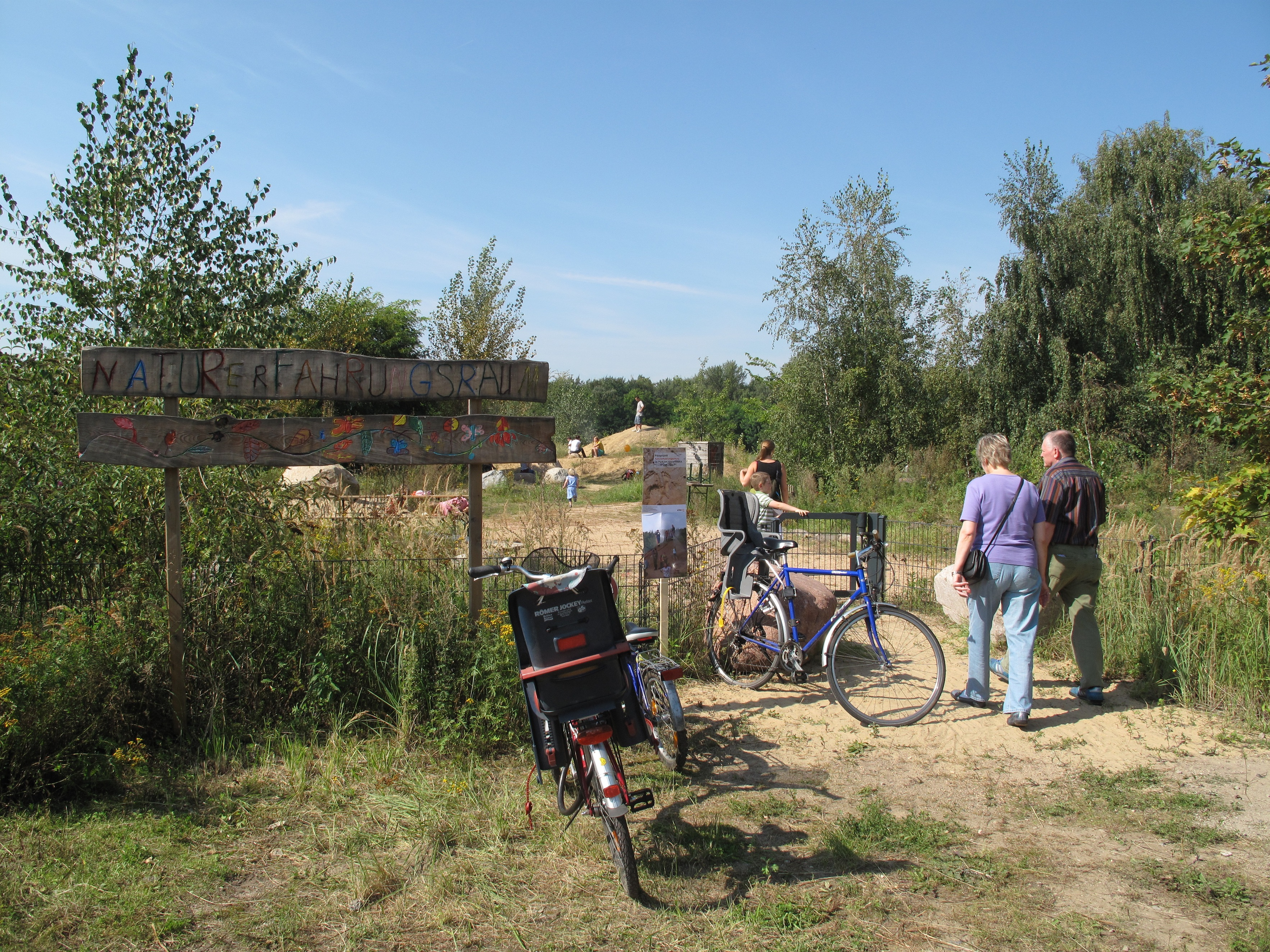 Ostpark, Naturerfahrungsraum (german for: area of nature experience). The Ostpark is a 17 hectare part of the Park am Gleisdreieck in Berlin-Kreuzberg, Germany. The Ostpark was opened on September 2, 2011.